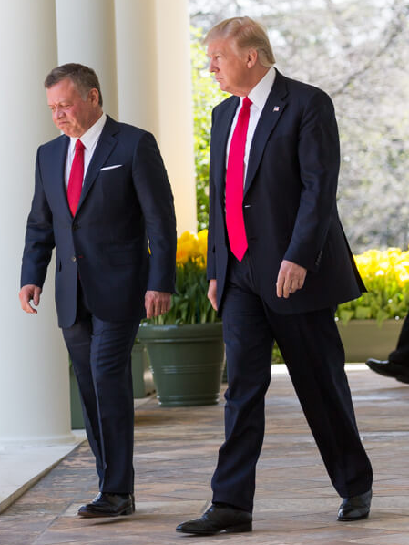 President Donald Trump and King Abdullah II of Jordan walk along the West Colonnade towards the podiums to begin a joint press briefing in the Rose Garden at the White House Wednesday, April 5, 2017, in Washington, D.C. Crop of File:Donald Trump and King Abdullah II.jpg